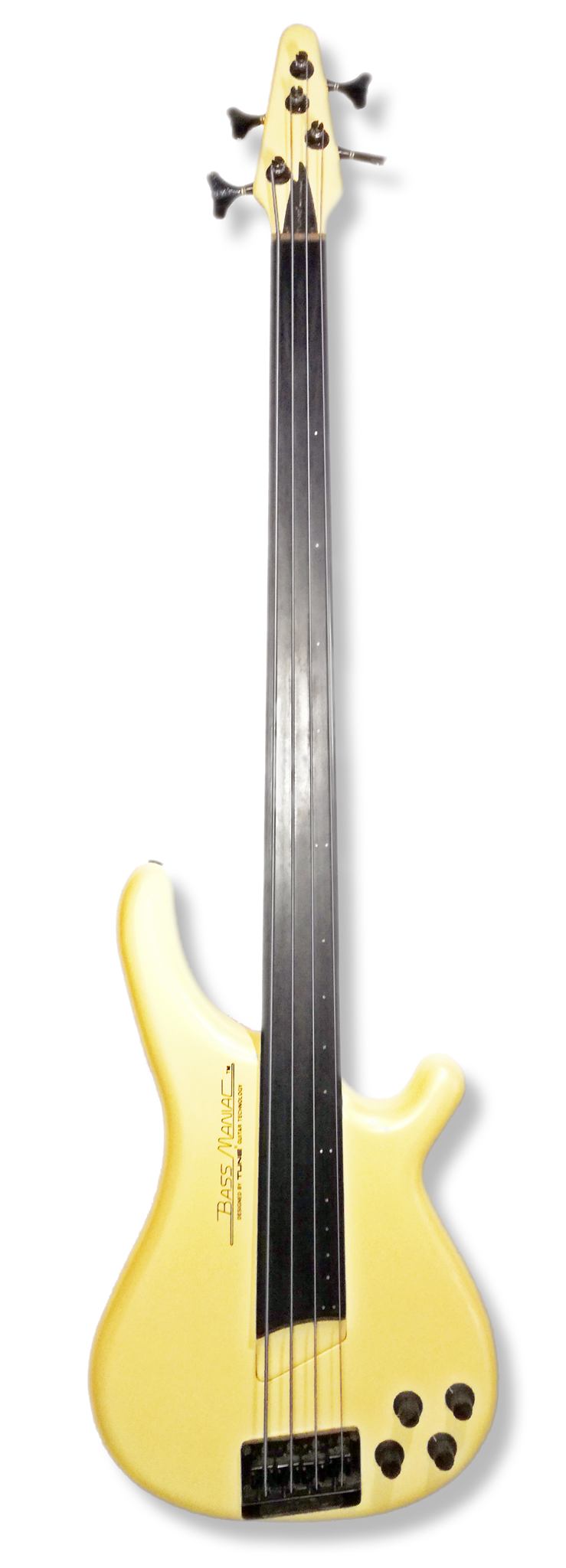 Japanese Tune fretless Bass Guitar TB-043 3 octave(36frets) piezoelectric pickup